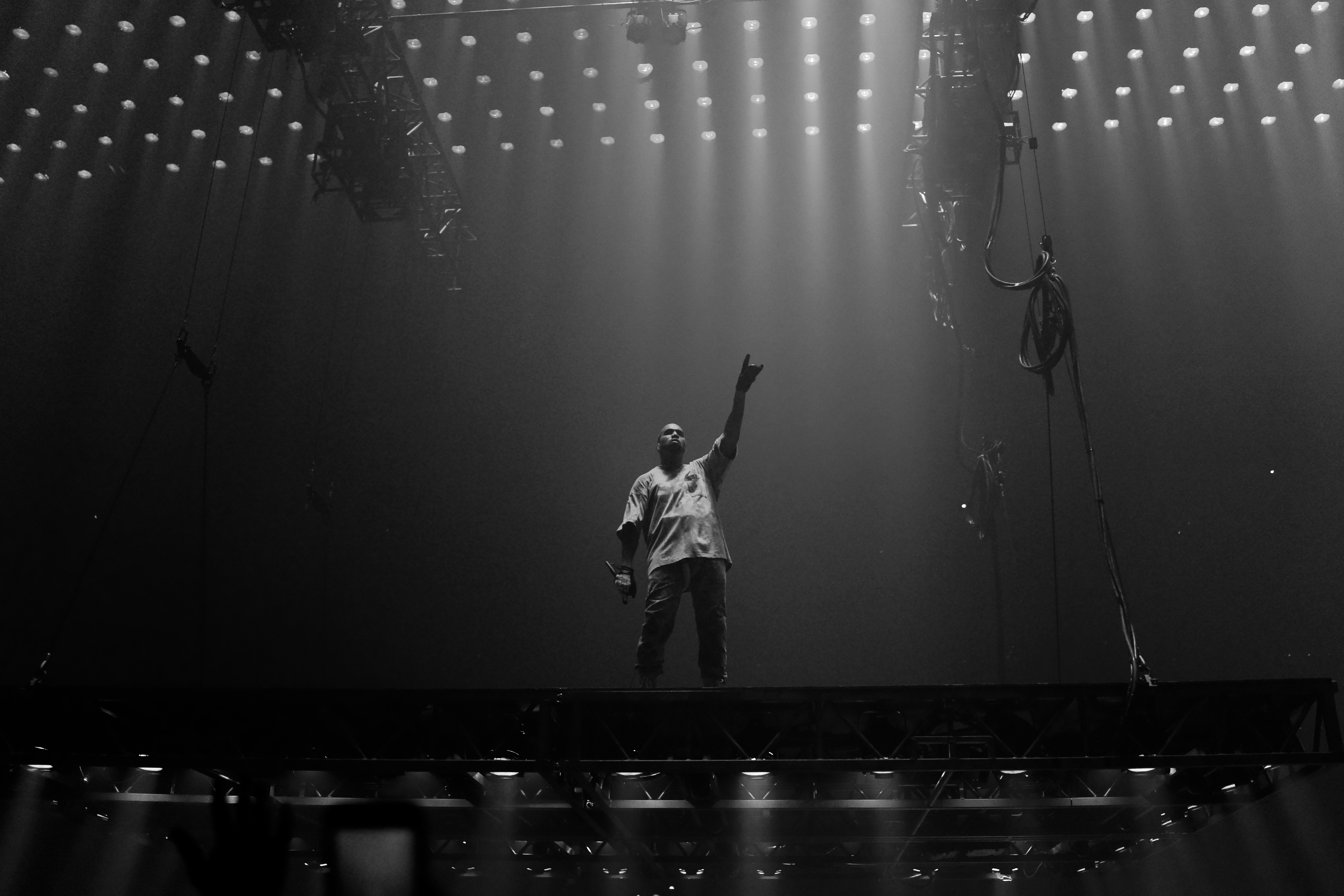 Kanye West performing for a concert at TD Garden on September 9, 2016 in Boston, Massachusetts on the Saint Pablo Tour.